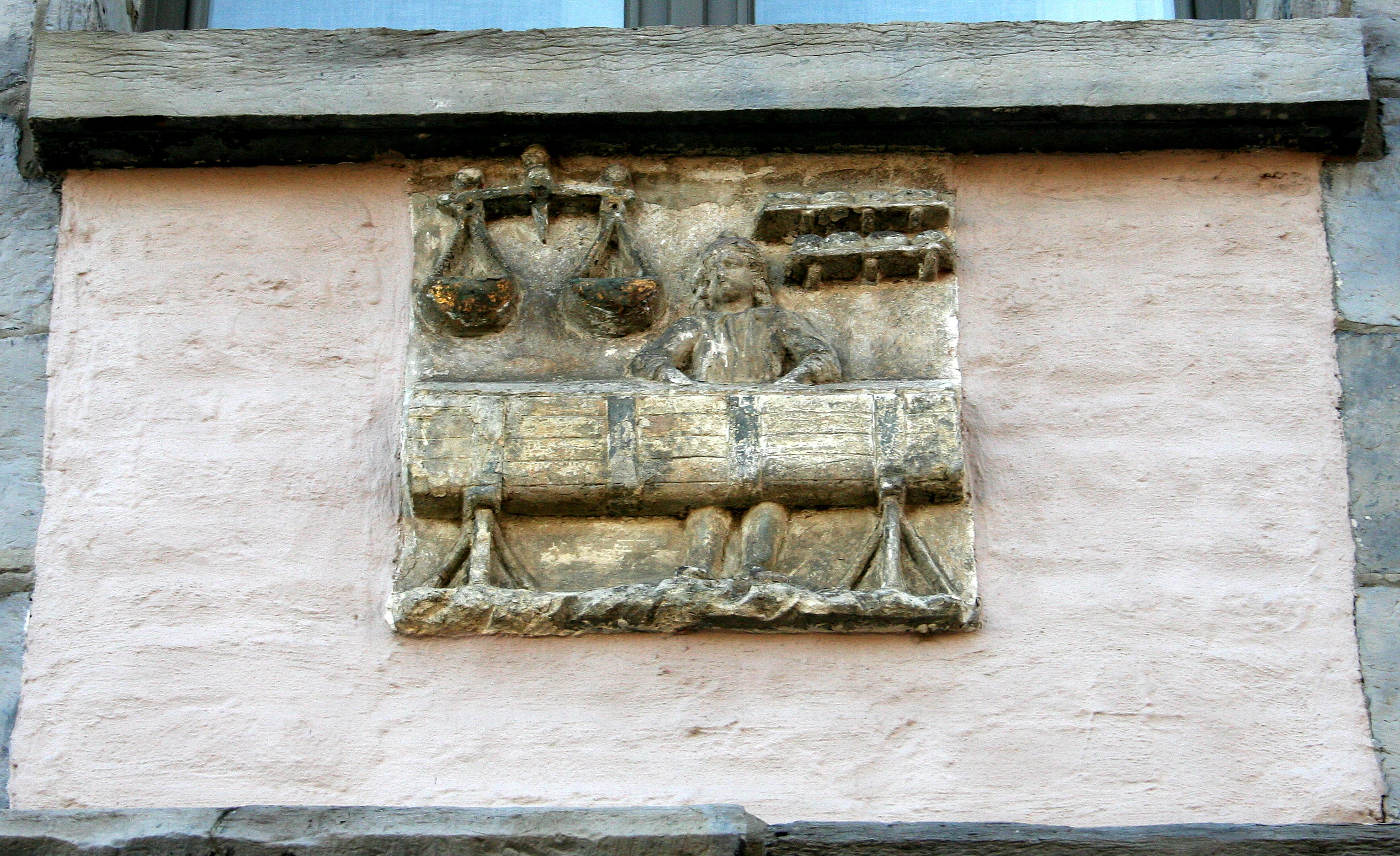 Tournai (Belgium), Place de Lille, 17. - Stone sign with a low-relief showing a bakker behind his kneading trough.